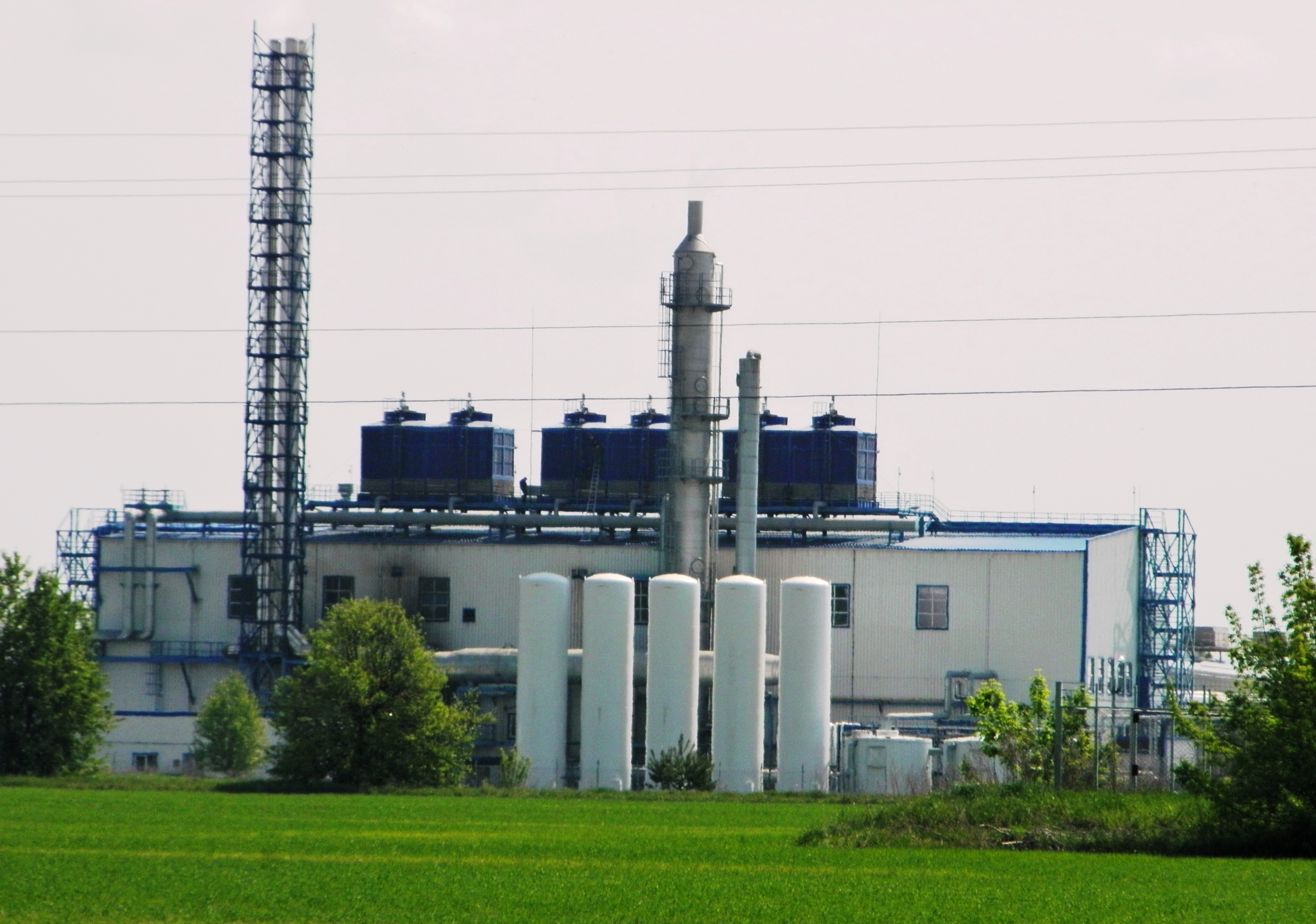 ТЕЦ компанії Coca-Cola Journey Ukraine.